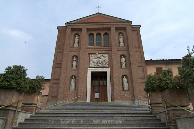 The parish church of Cumignano sul Naviglio, province of Cremona, Italy